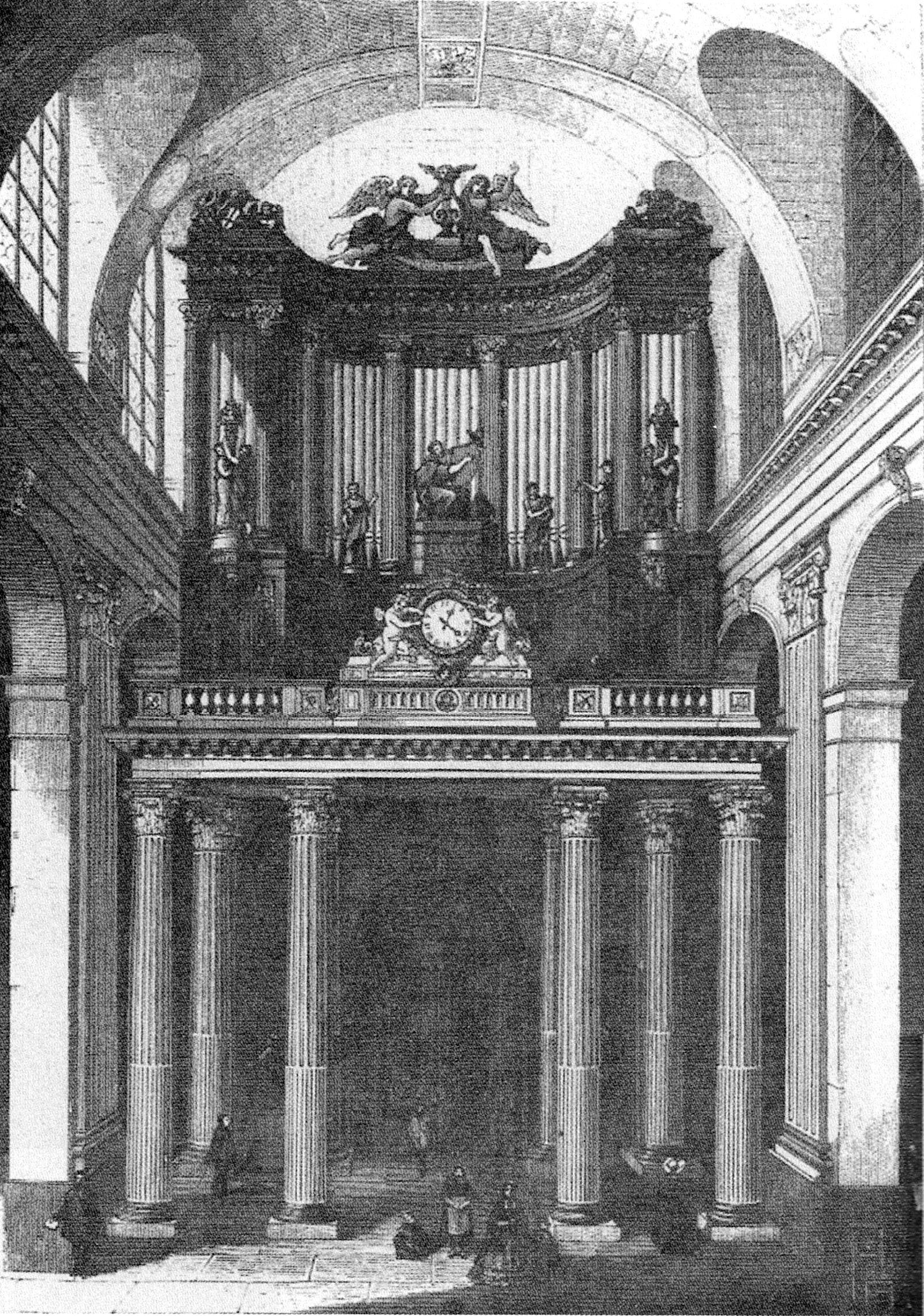 Organ of Saint-Sulpice, Paris: Façade